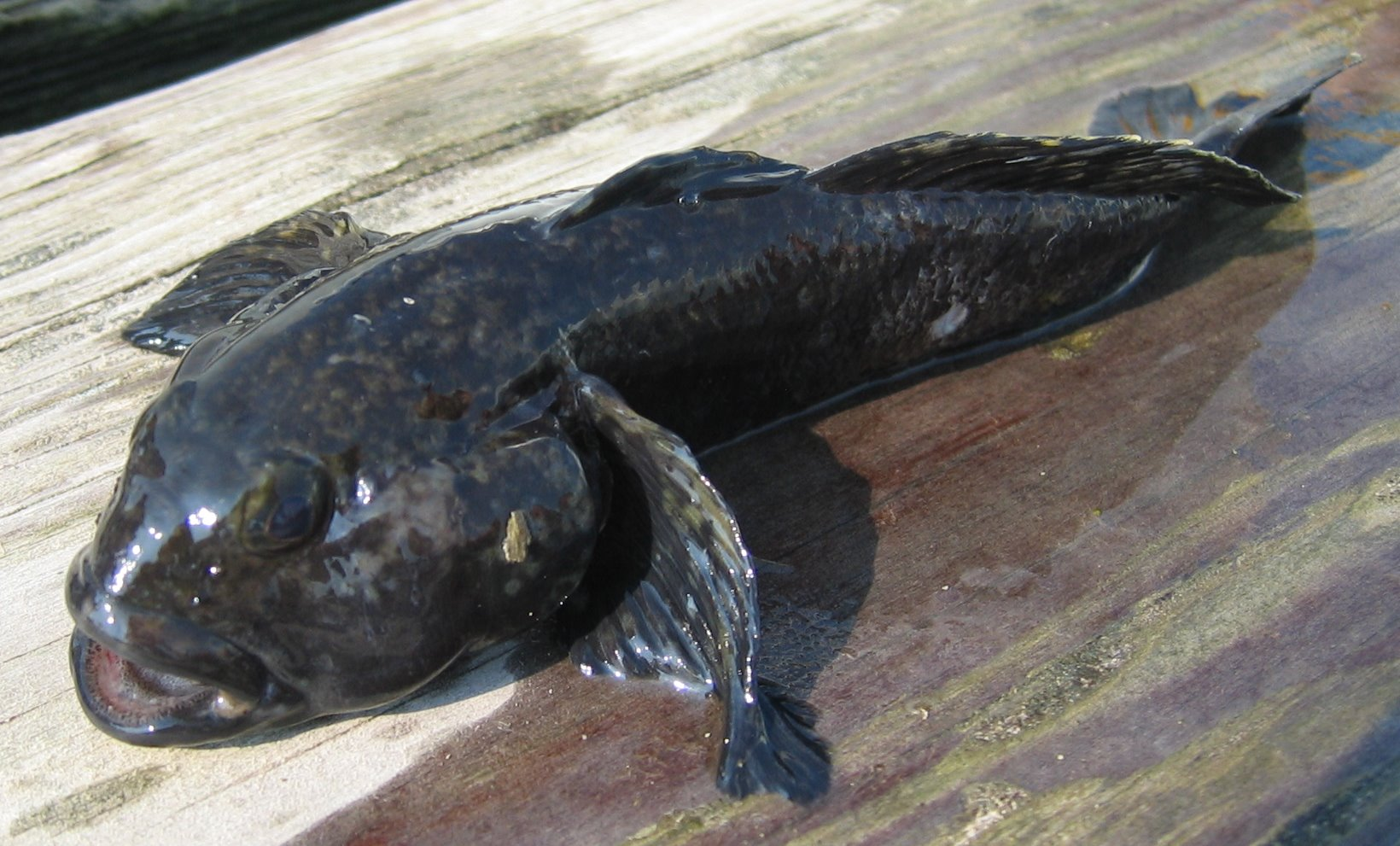 Taken in Leamington, Ontario during a research expedition.